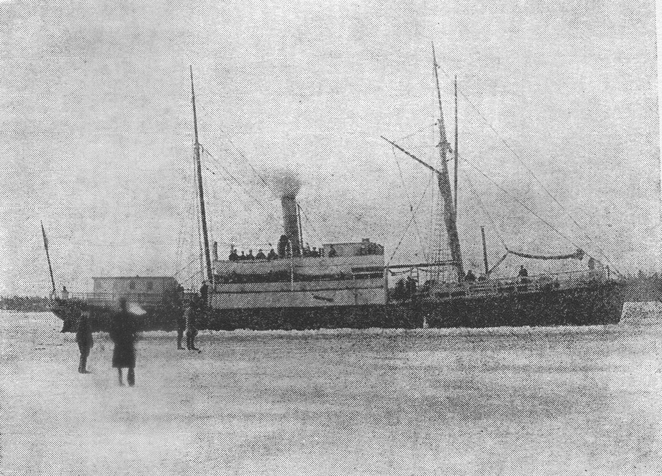 the SS Sofia, a vessel that the Finnish-Swedish explorer Adolf Erik Nordenskiöld used on some of his exploration journeys to Svalbard and Greenland